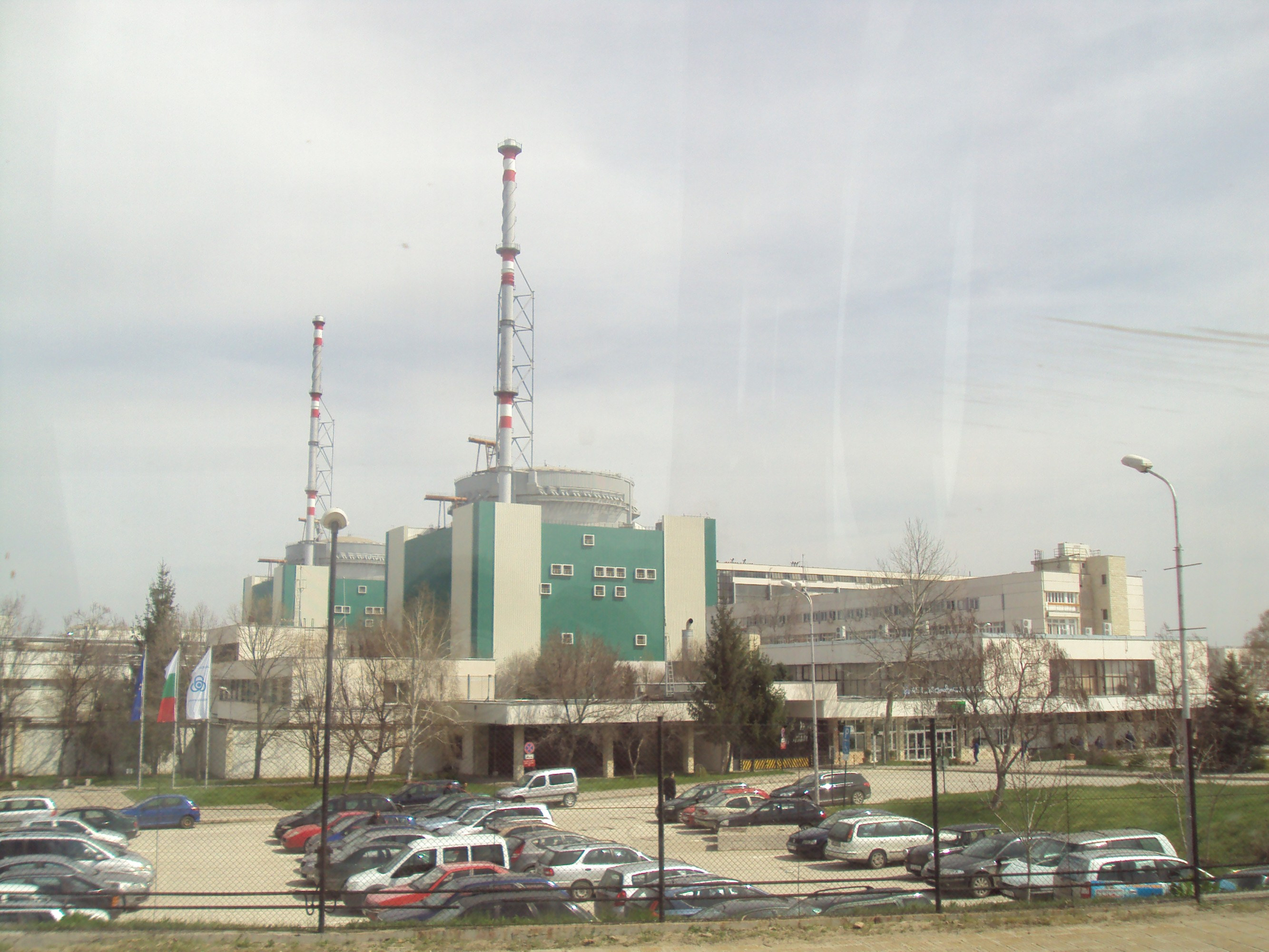 Kozloduy, Nuclear Power Plant in Bulgaria